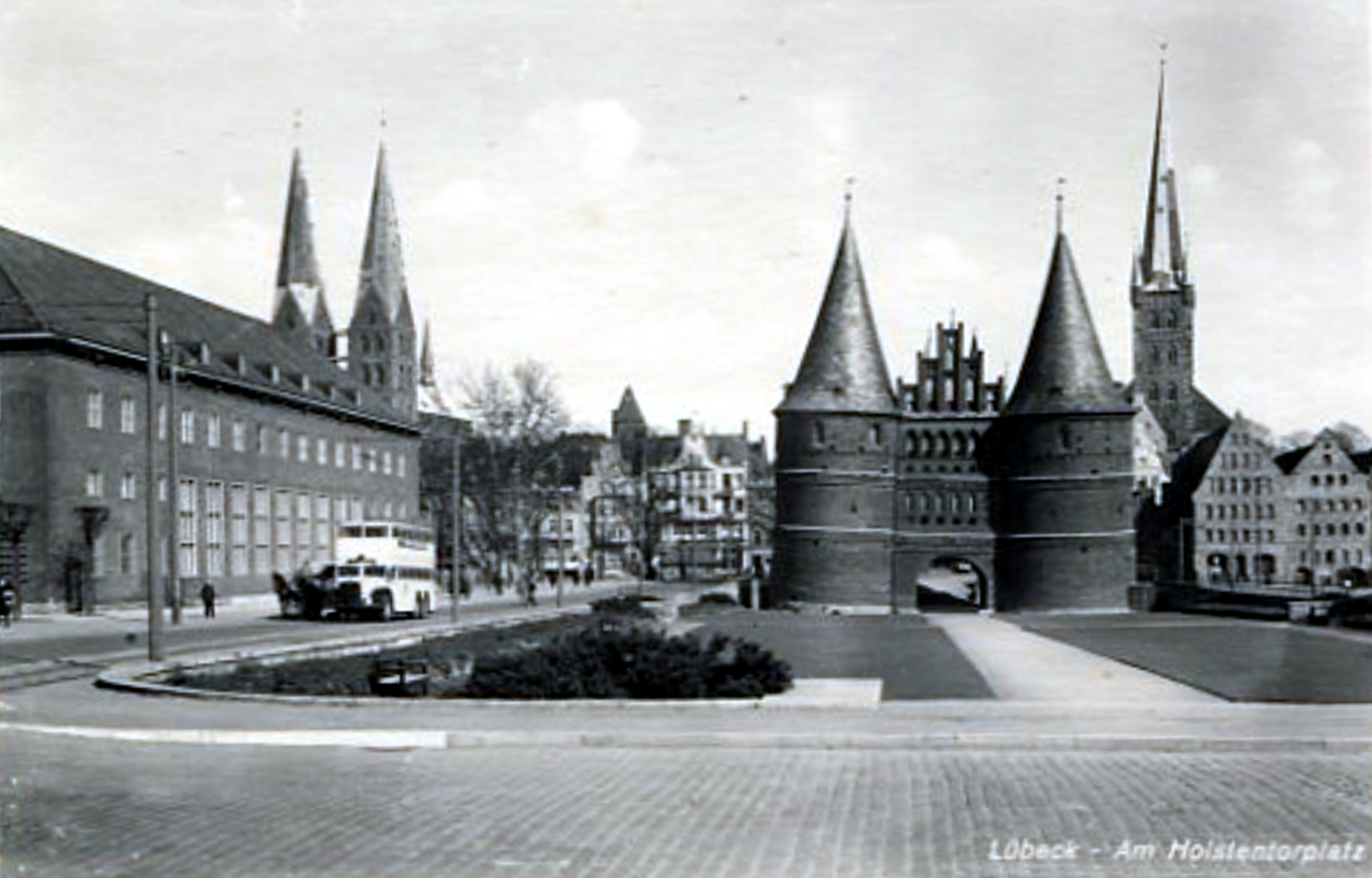 Holstentorplatz square in Lübeck. Must date from between 1934, when the square was built, and 1938, when the name was changed to Adolf-Hitler-Platz. Clearly a pre-war photo since the churches show no bombing damages and the park has its pre-war layout.